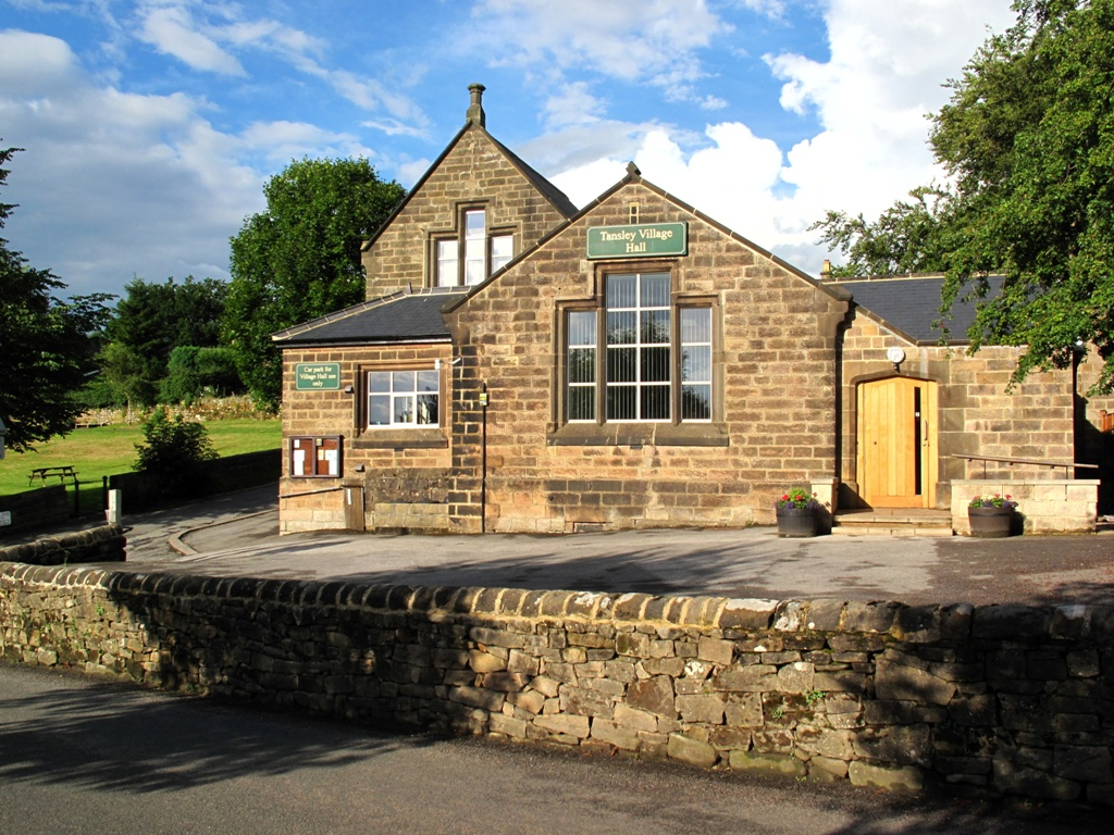 Tansley Village Hall, Church Street, Tansley, Derbyshire, DE4 5FH